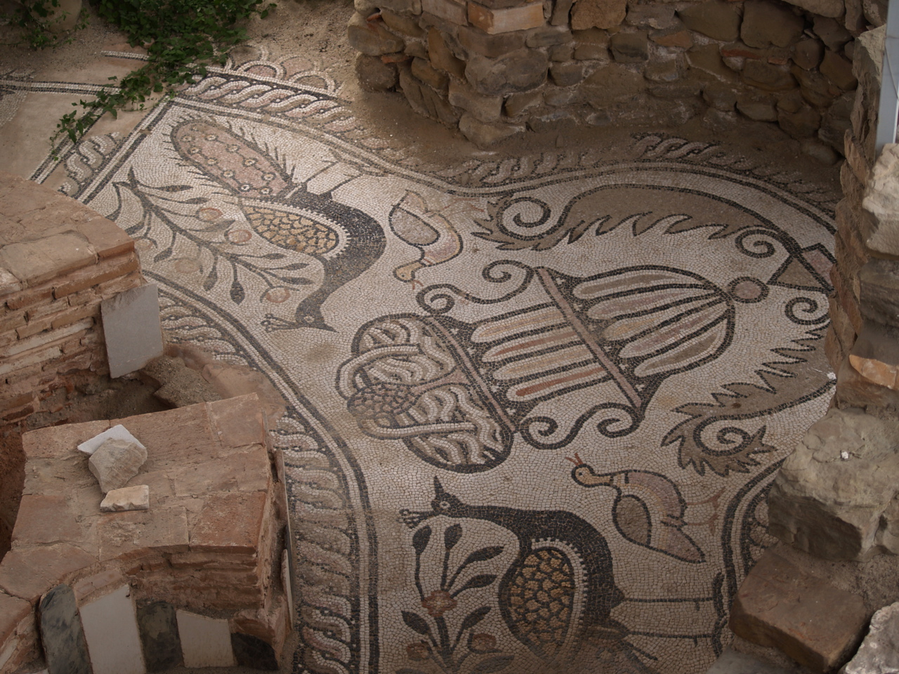 Roman city ruins Stobi Macedonia